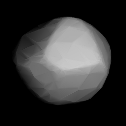 3D convex shape model of 834 Burnhamia, computed using light curve inversion techniques. J. Hanuš, J. Ďurech, M. Brož, B. D. Warner (June 2011). "A study of asteroid pole-latitude distribution based on an extended set of shape models derived by the lightcurve inversion method". Astronomy and Astrophysics 530: A134. ISSN 0004-6361. arXiv